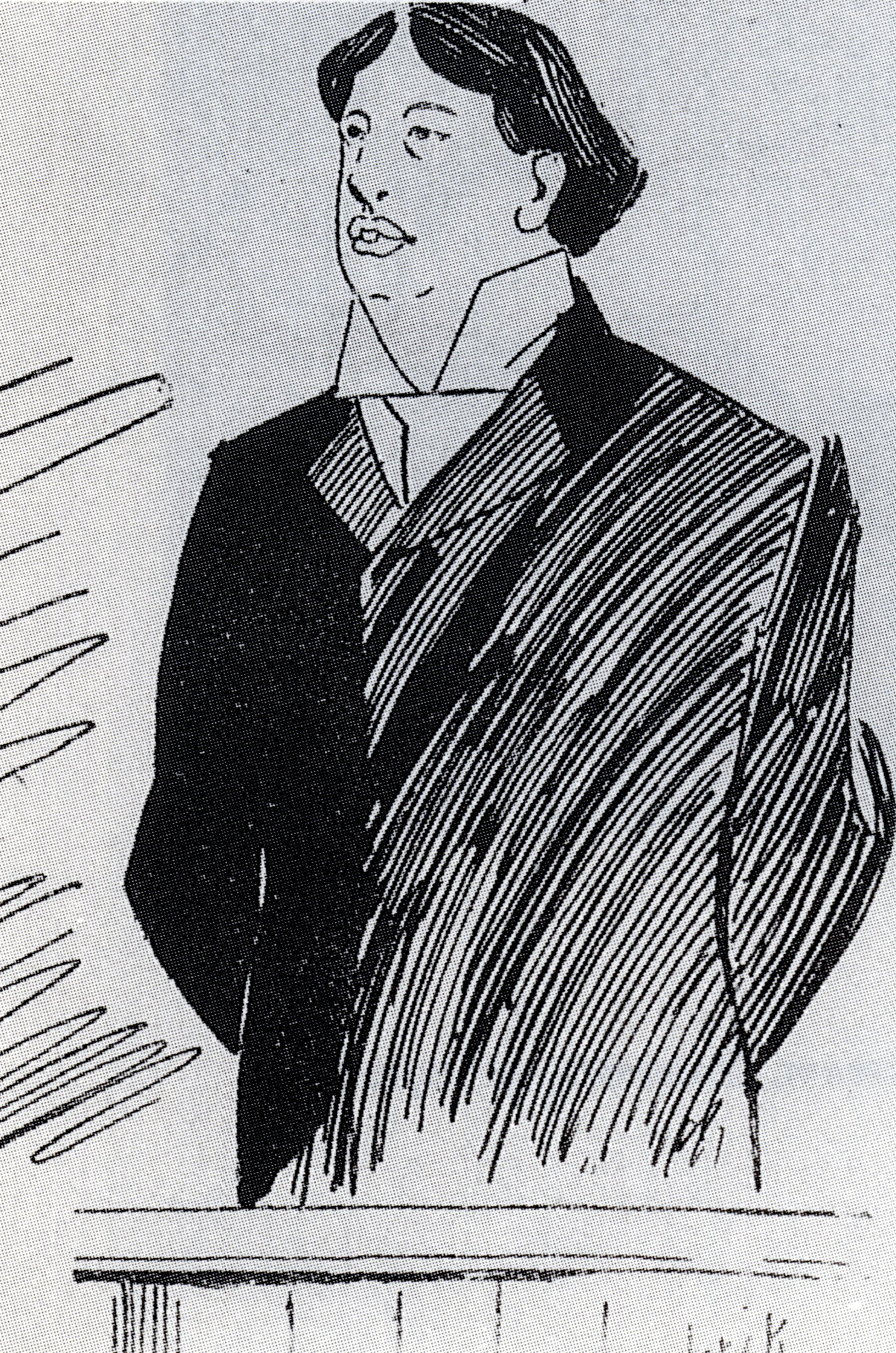 Oscar Wilde sketch by Ralph Hodgson - Yorick